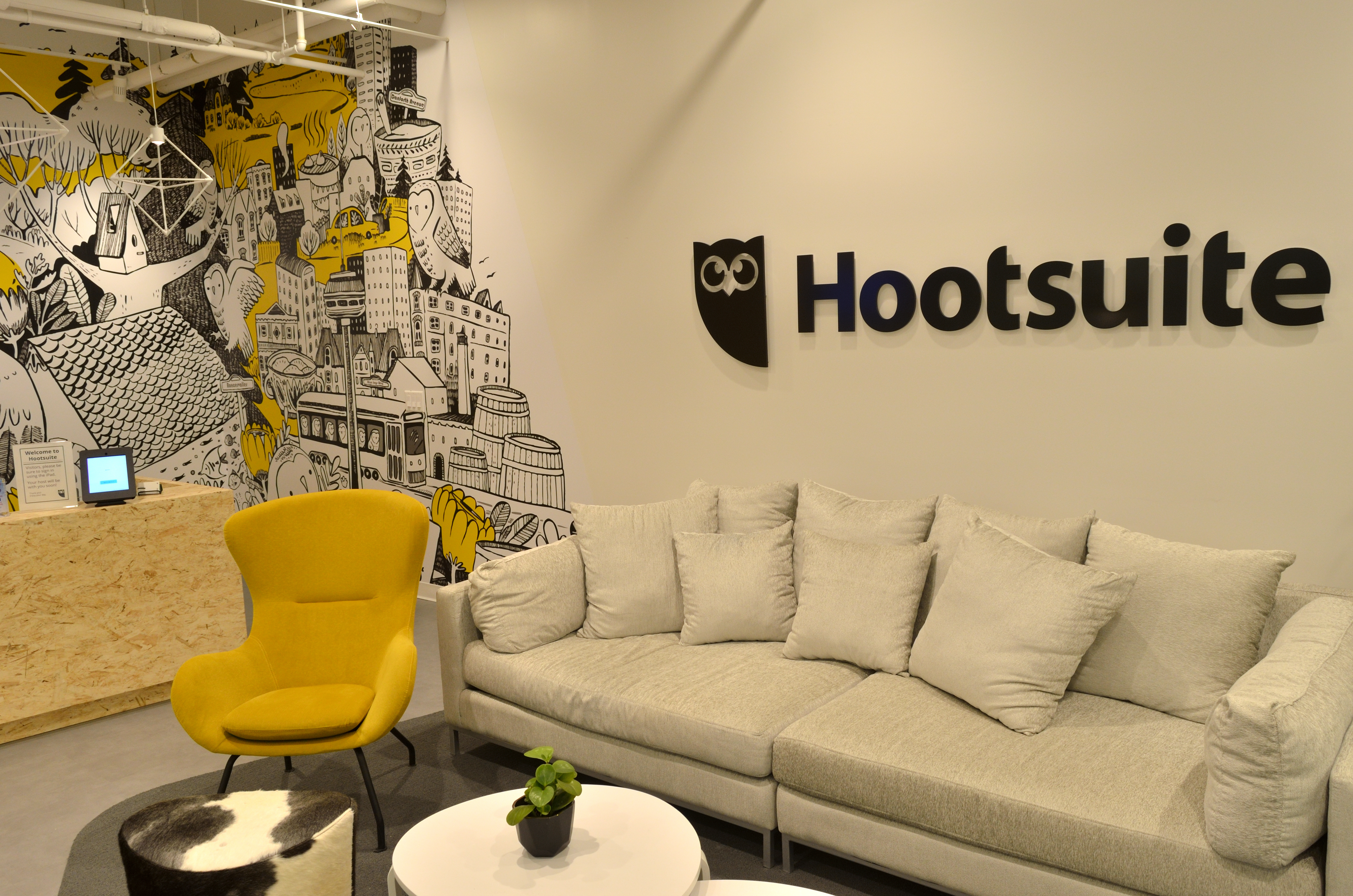 Hootsuite office in Toronto - Address: 325 Front St W, Toronto, ON M5V 2Y1